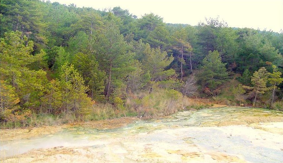 Hot thermal springs of Hamamboğazı in Banaz, Uşak Province, Turkey (moved from Wikipedia, originally uploaded by User:Cretanforever)